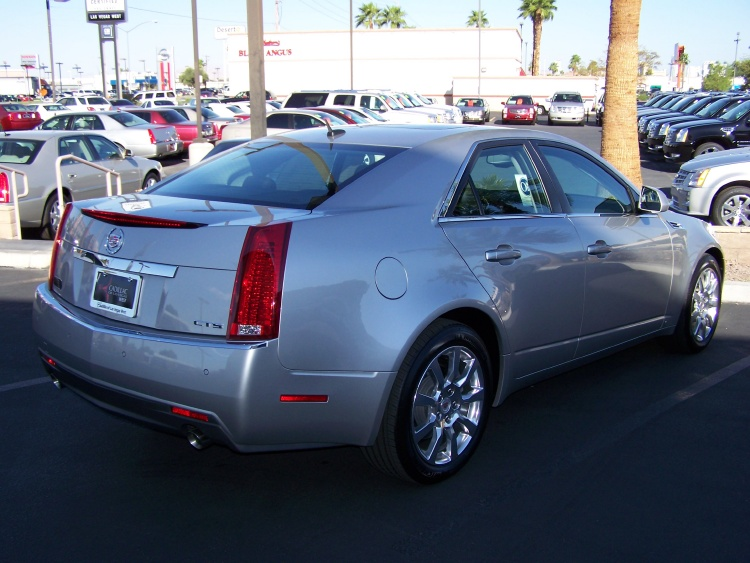 2008 Cadillac CTS (US model shown) 2008er Cadillac CTS, US-Version